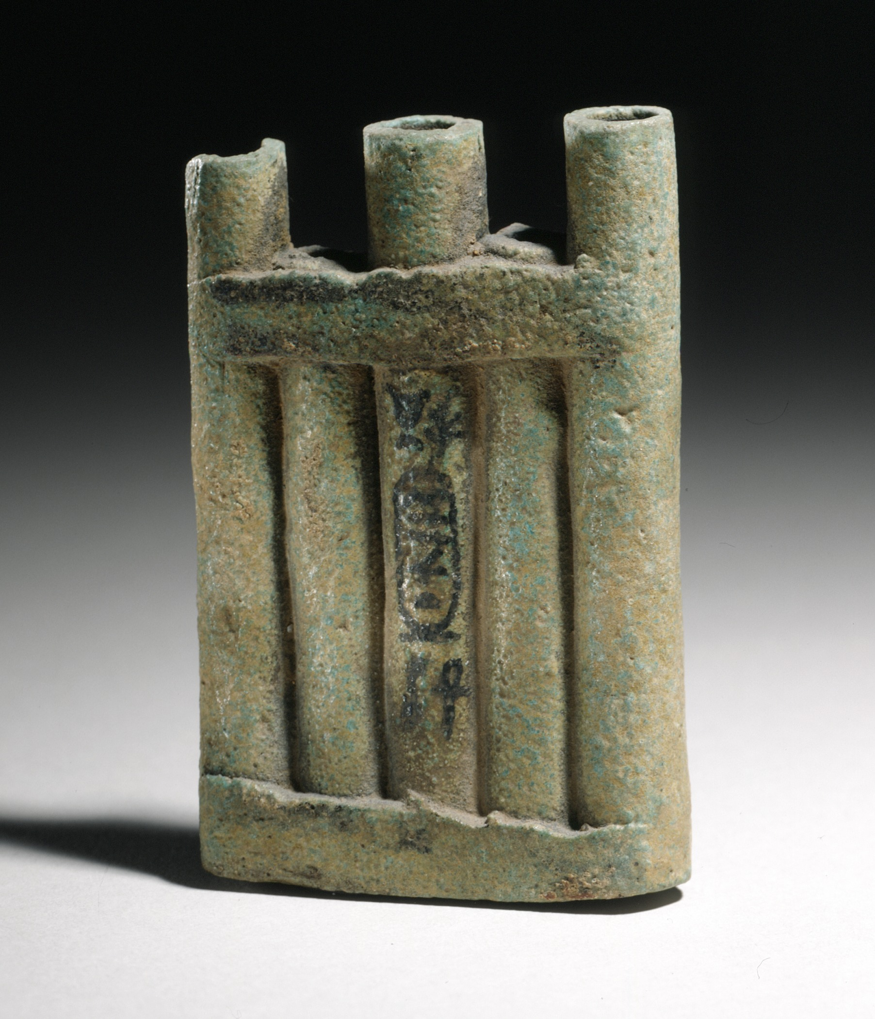 Egypt, 18th Dynasty, reign of Amenhotep III , 1410 - 1372 B.C. Furnishings; Accessories Faience, blue glaze, details in black Height: 3 1/4 in. (8.2 cm); Width: 2 1/8 in. (5.4 cm); Depth: 1/2 in. (1.3 cm) Gift of Frank J. and Victoria K. Fertitta (M.80.198.89) Egyptian Art Currently on public view: Hammer Building, floor 3